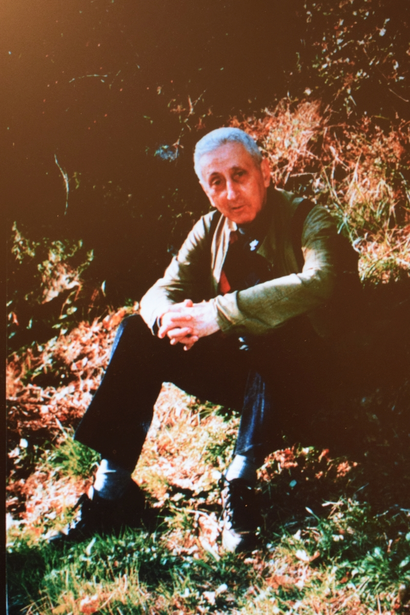 Prof.Fritz Bornmann